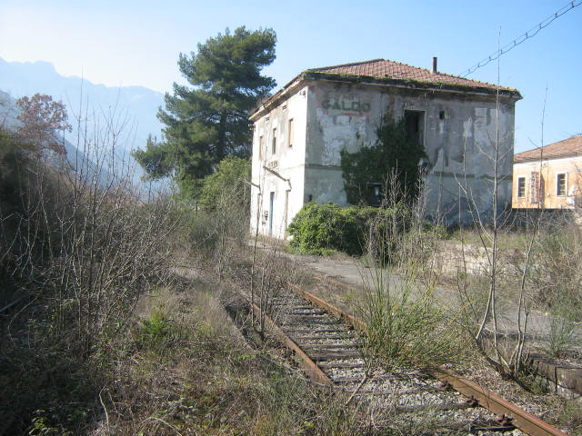 Railway station of Galdo